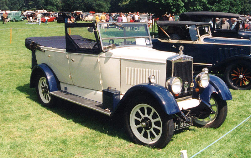 1927 Morris Oxford Flatnose. DVLA: 1802cc (14/28) manf. 1927 first registered 22 July 1927 Photographed by myself at Newby Hall, Yorkshire, England in July 2000.is it still there